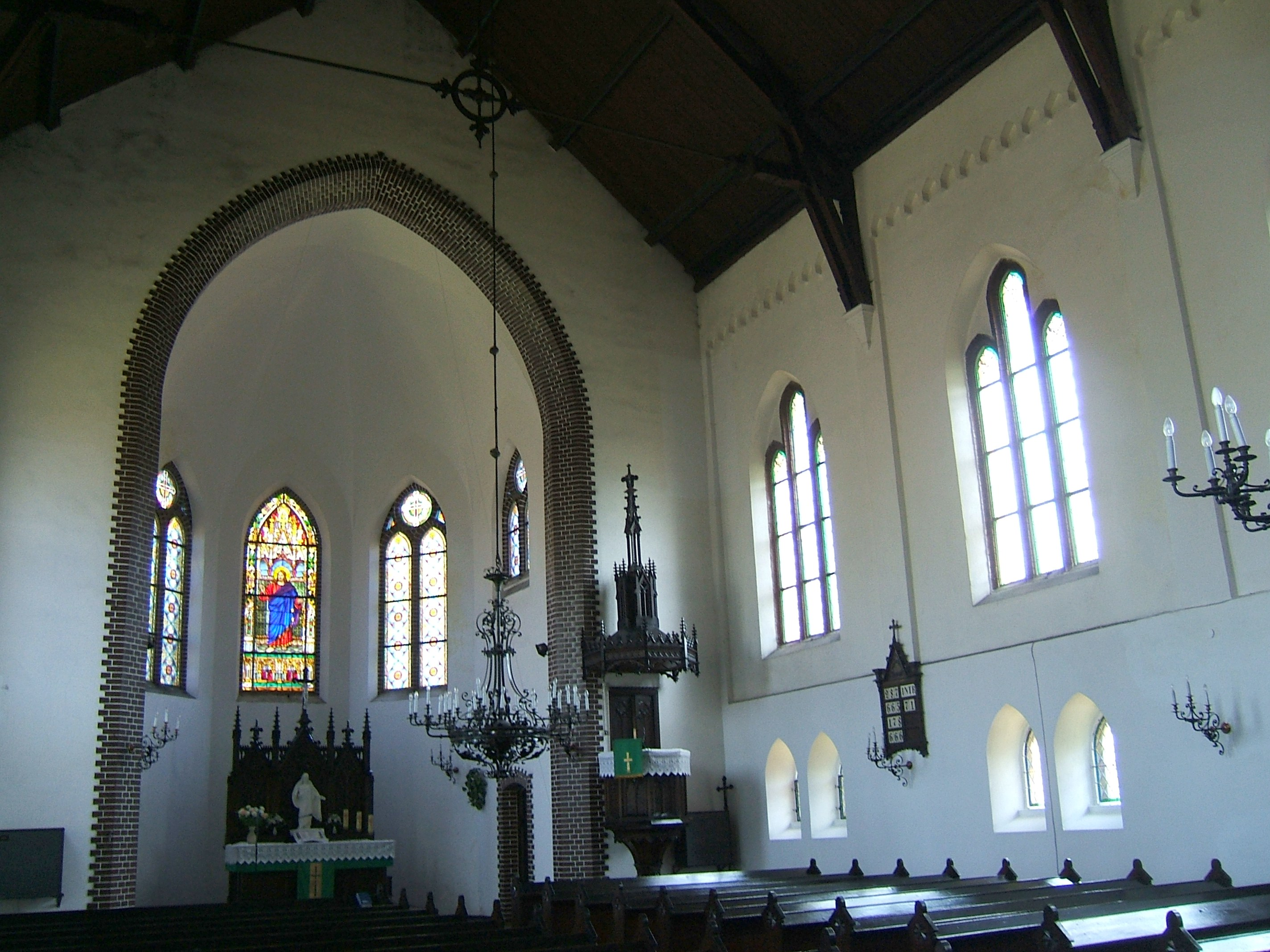 Inside view of Our Savior Lutheran Church in Szopienice.